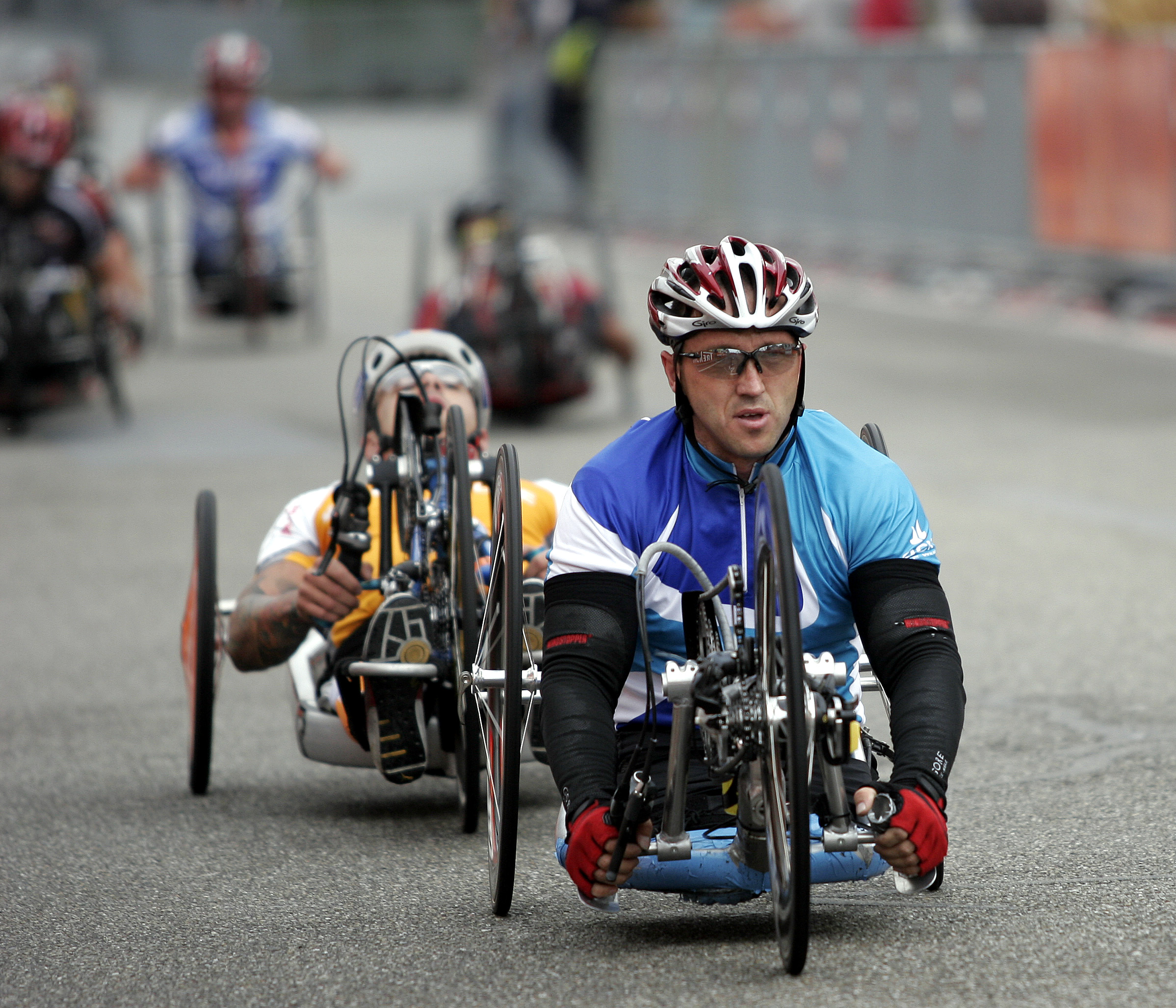 Handbike race in Lorsch (Hesse, Germany). ENtega Grand Prix 2007.